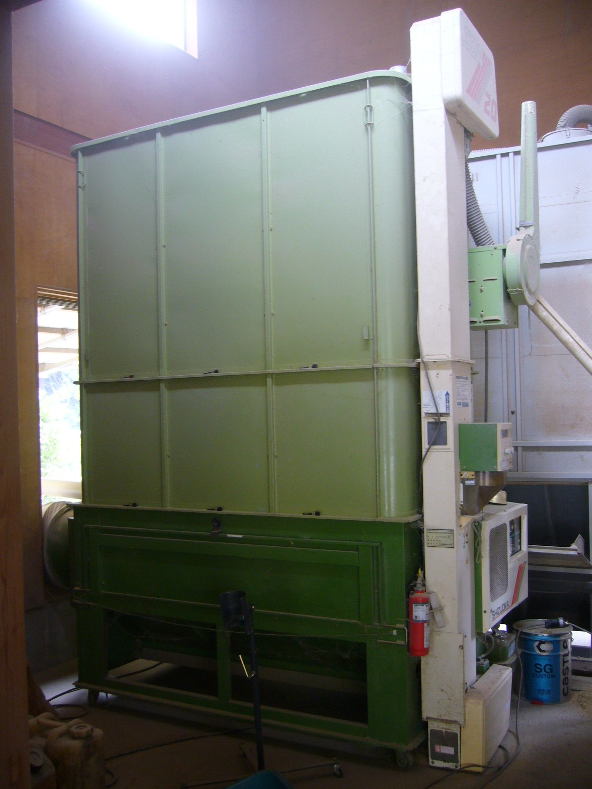 rice-dry-up-machine,katori-city,japan